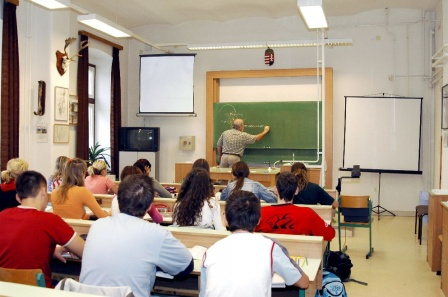 Biology-class